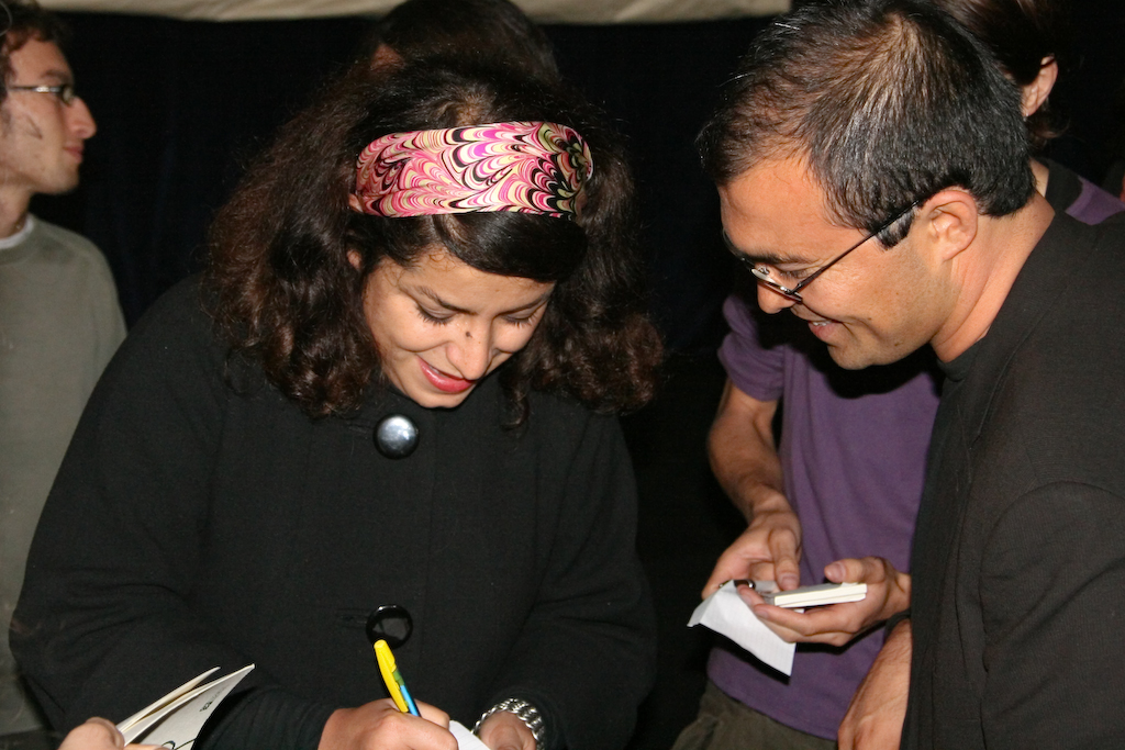 Marjane Satrapi in 2007 during an Italien premiere of her film Persepolis